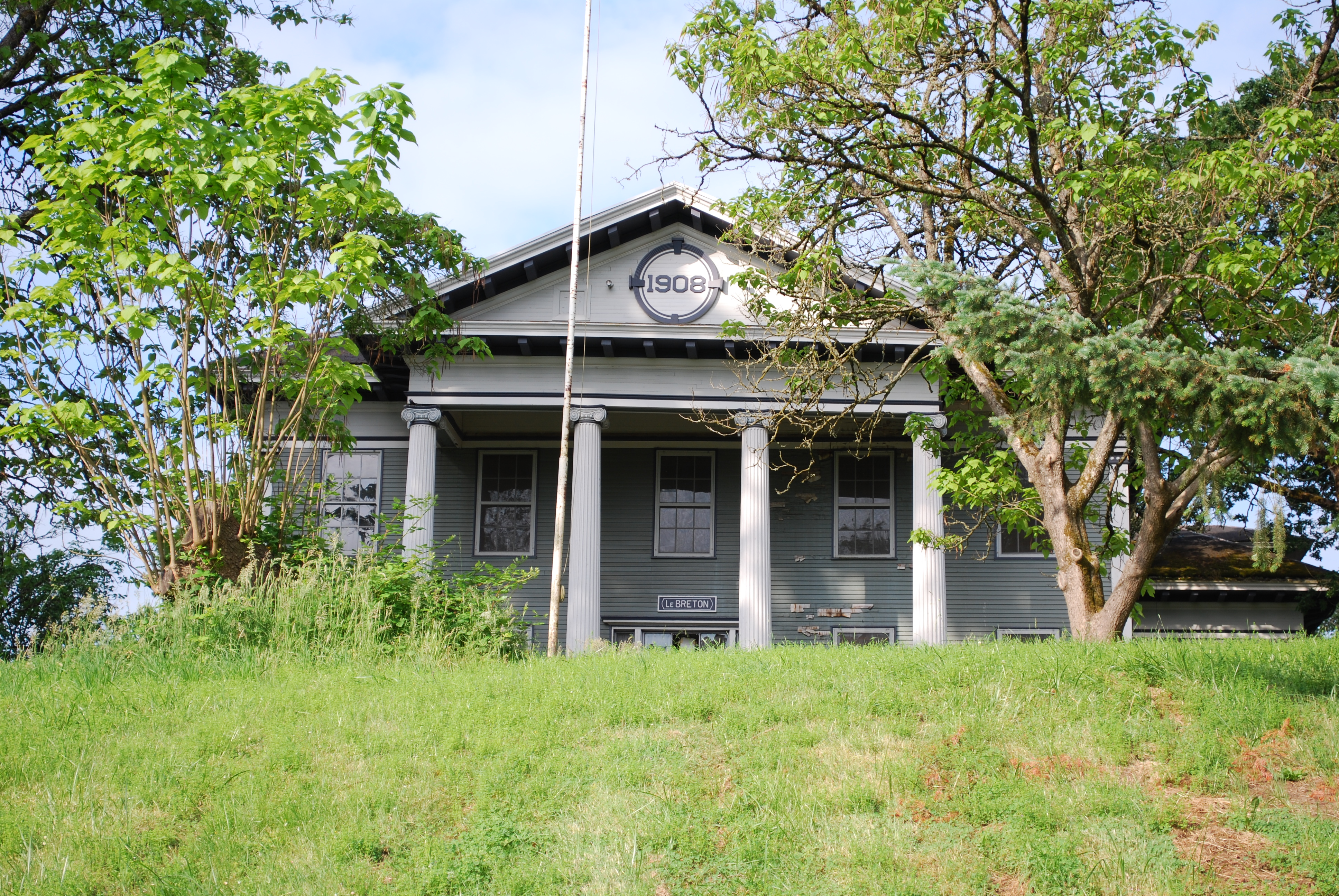 Fairview Training Center located in Salem